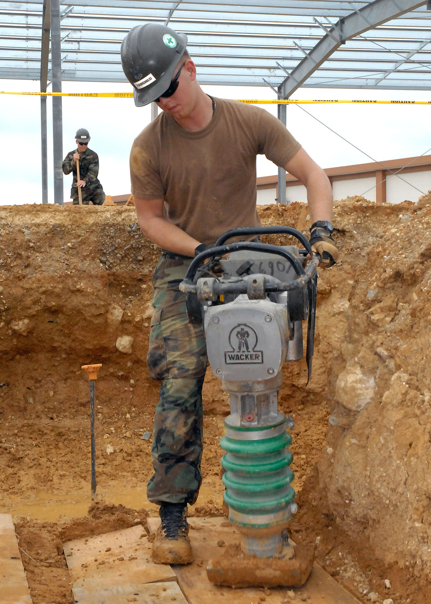 OKINAWA, Japan (Dec. 17, 2007) Builder 2nd Class Lance D. Fairchild of Naval Mobile Construction Battalion (NMCB) 5 packs the loose dirt after setting the elevation for footers supporting a Material Storage Facility project at Camp Shields. NMCB 5 is currently deployed to Okinawa, Japan. U.S. Navy photo by Mass Communication Specialist 3rd Class Patrick W. Mullen III (Released)